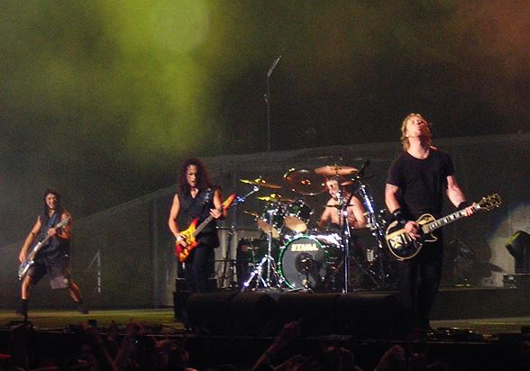 Cropped version of Image:Metallica live London 2003-12-19.jpg